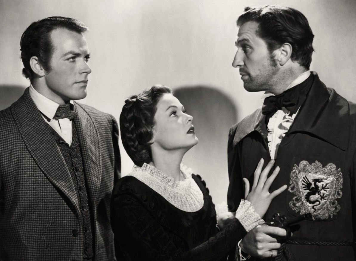 L. to R. : Glenn Langan, Gene Tierney & Vincent Price in Dragonwyck - publicity still